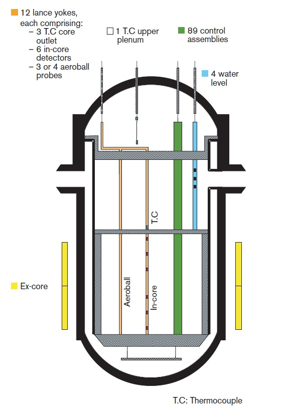 in-core instrumentation of Areva's EPR, side view